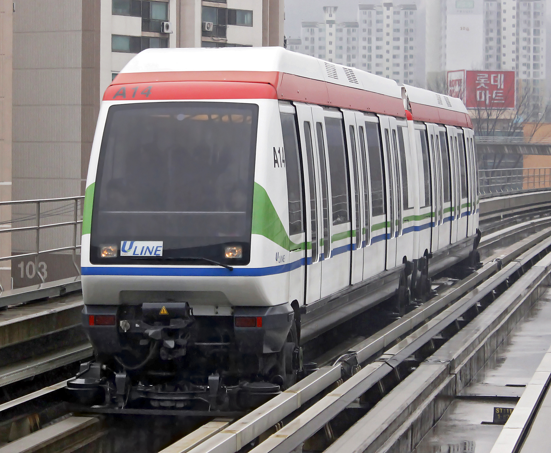 Uijeongbu ULine VAL208 railcar